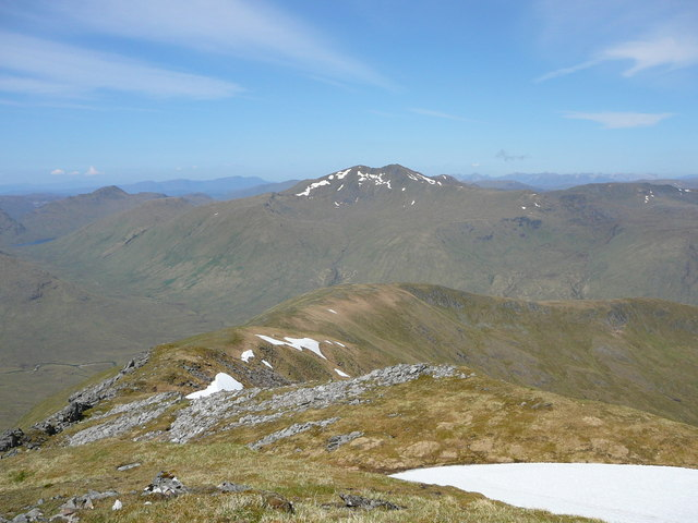 The sweeping north western ridge from Mullach Fraoch-choire The snow top peak in the background is Sgurr nan Ceathreamhnan